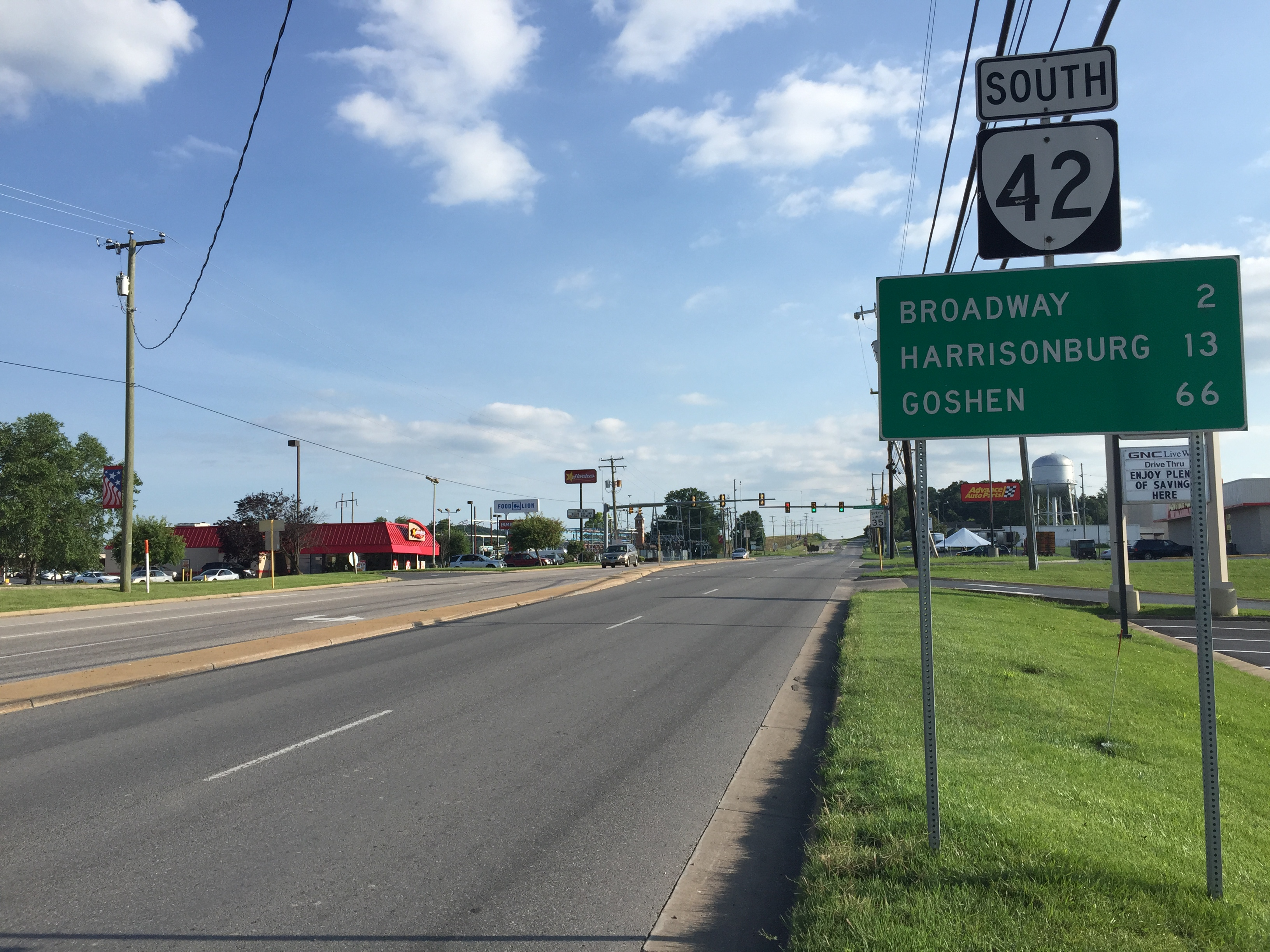 View south along Virginia State Route 42 (Main Street) at McCauley Avenue in Timberville, Rockingham County, Virginia